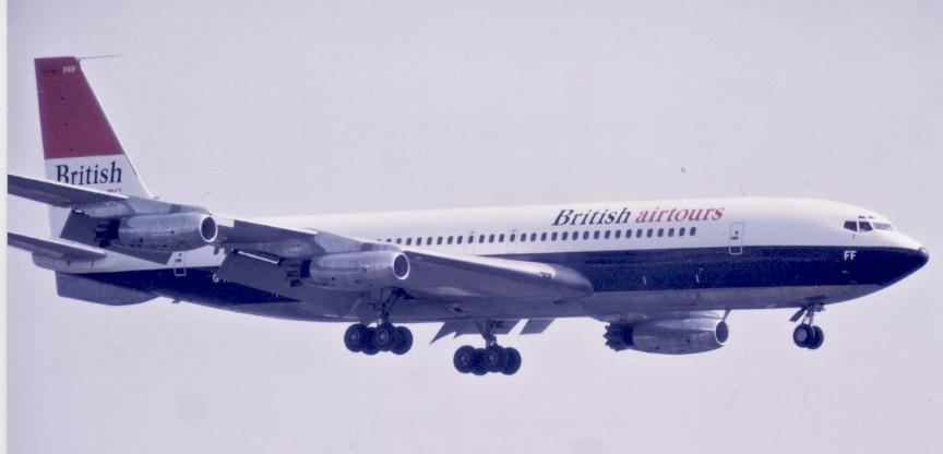 British Airtours Boeing 707-436 G-APFF landing at Manchester in 1974